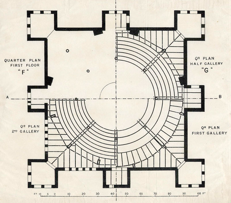 Image of plans to Jezreel's tower used in the Medway News; reproduced with permission of Memories page editor